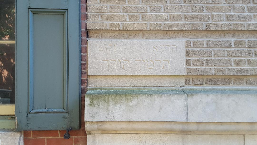 314-320 Catharine Street, Philadelphia, Pennsylvania on August 29, 2019. Building formerly Central Talmud Torah and location of Beth Jacob Day School between 1911-1963. Condominiums in 2019. Cornerstone laid 5671.